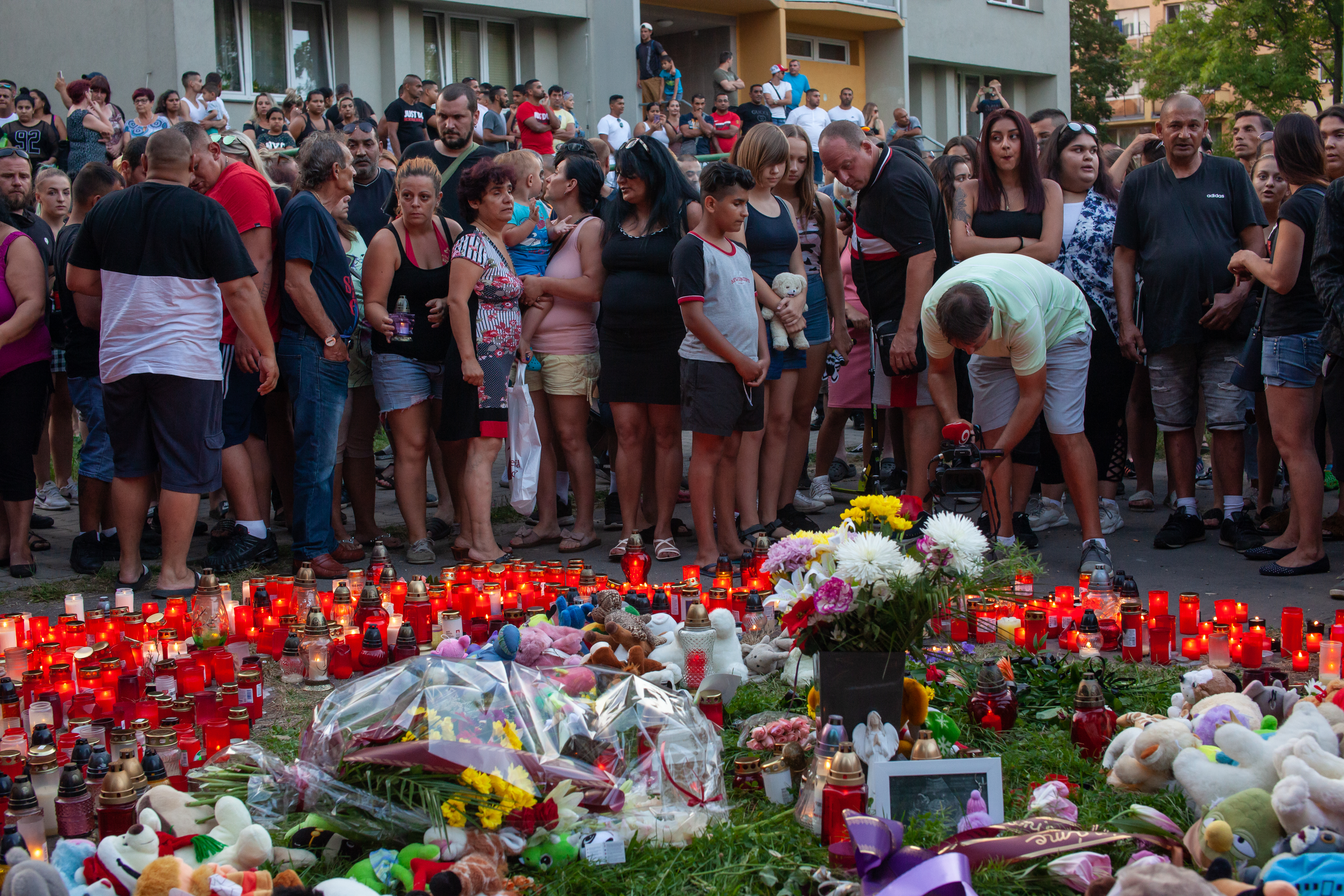 2020 Bohumín arson attack - aftermath, act of piety, Bohumín, Karviná District, Moravian-Silesian Region, Czechia